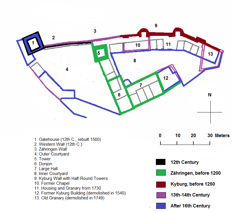 A plan of Burgdorf Castle showing the major construction periods. Some details omitted for clarity. Based on Werner Meyer (Red.) - Burgen der Schweiz, Bd. 9: Kantone Bern und Freiburg. Zürich 1983. with construction phases by O. Steimann 2006 from Burgen.de.